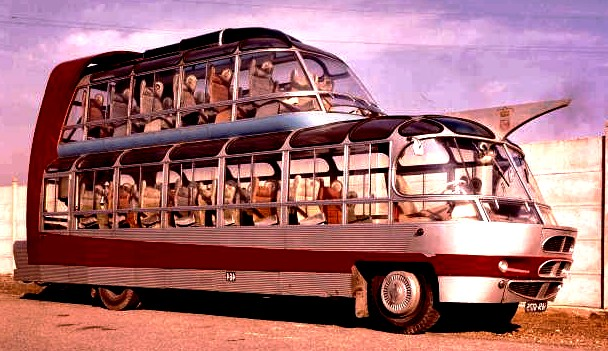 Citroen Currus Cityrama